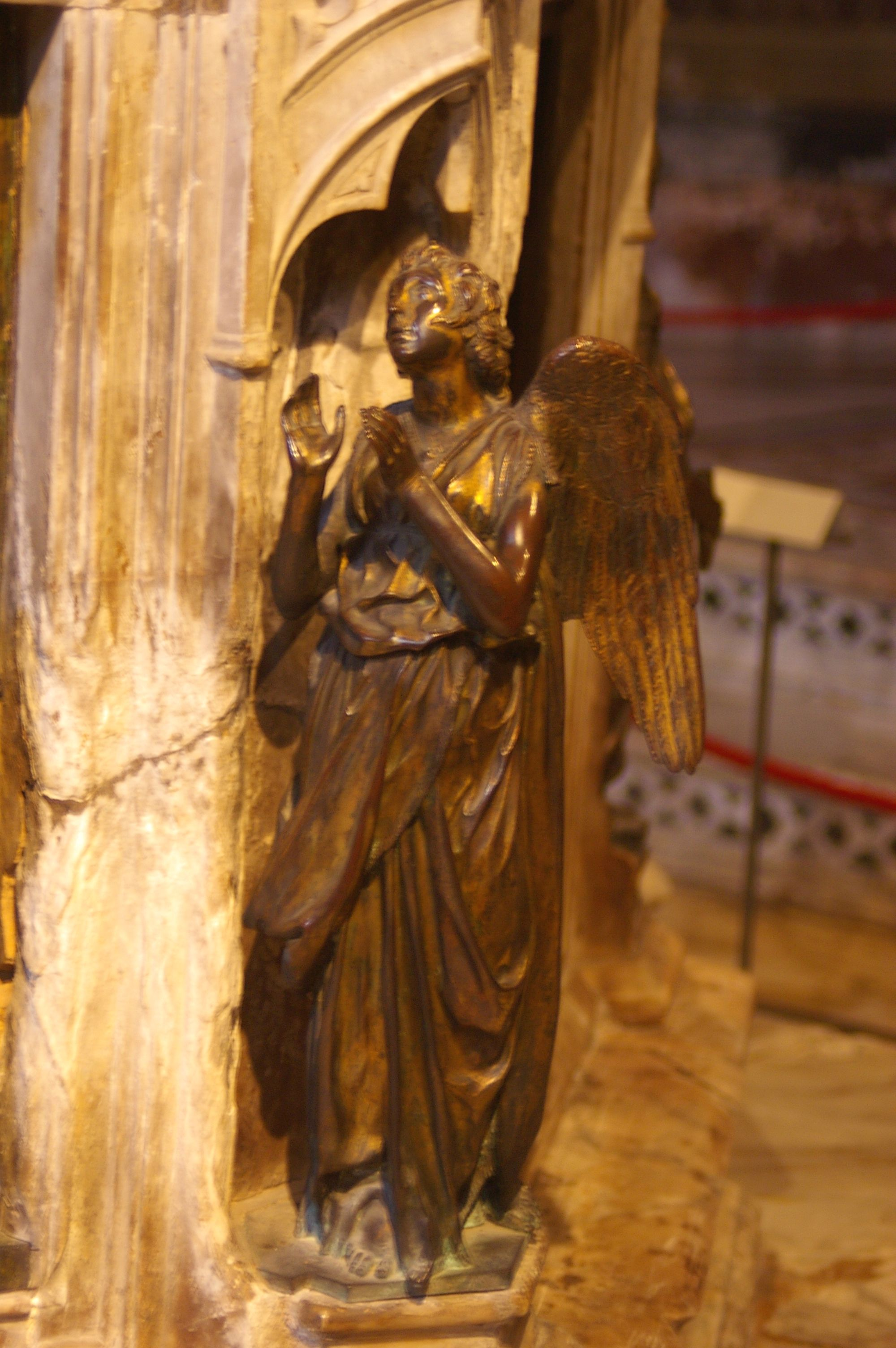 Donatello, Speranza